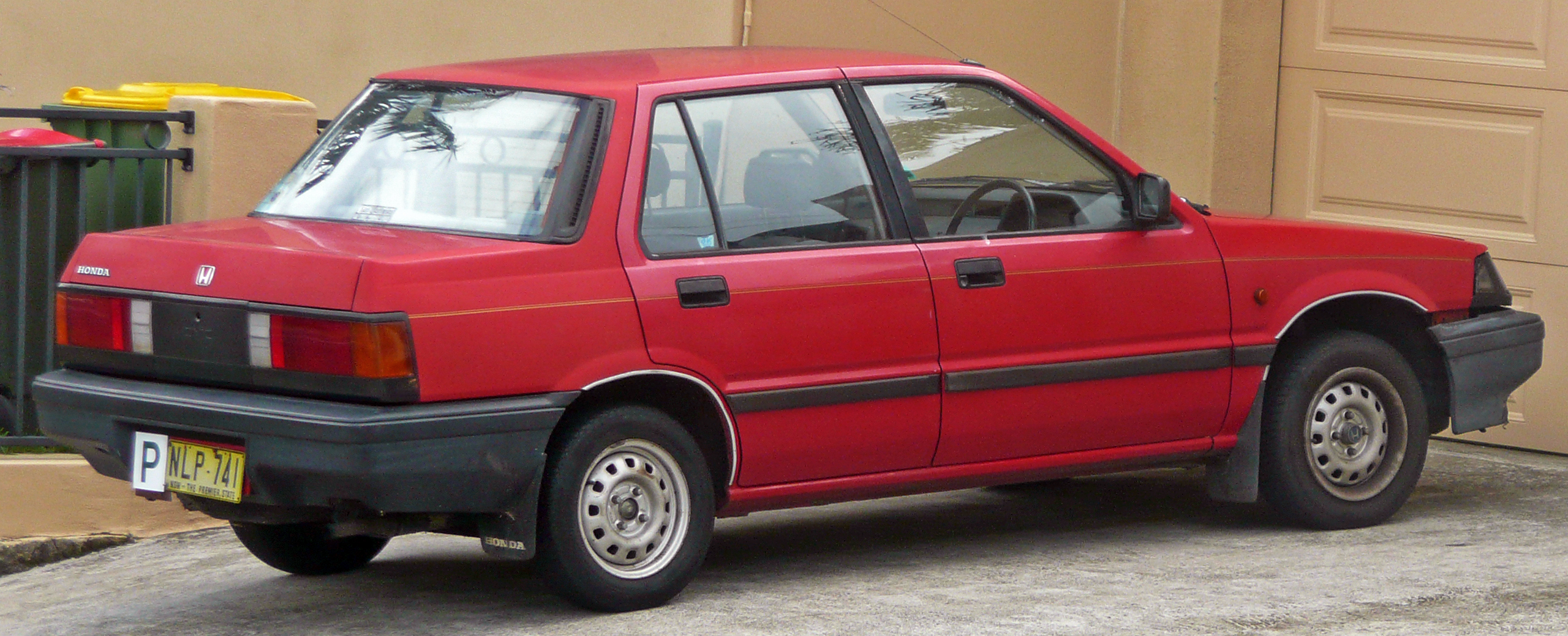 1985 Honda Civic (AK) sedan. Photographed in Cronulla, New South Wales, Australia.